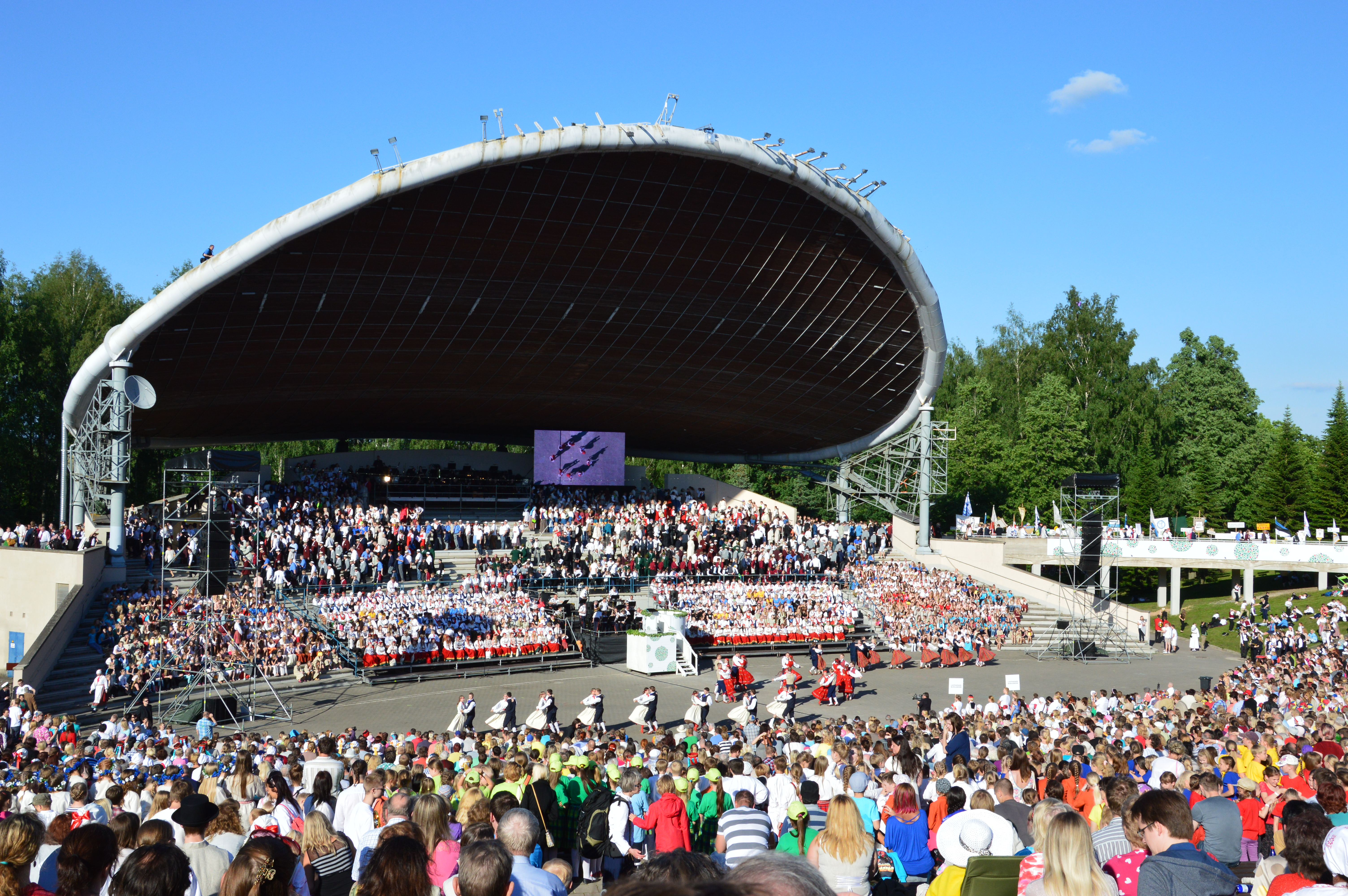 Tartu Song Festival 2014 "Then and Now".